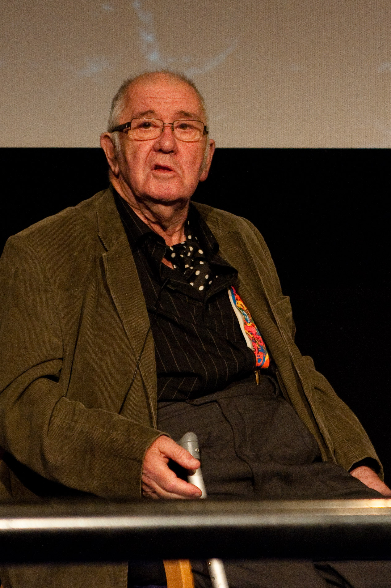 Stanley A. Long at the Fantastic Films Weekend in Bradford (UK) on 6th of June 2010.